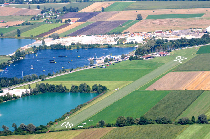 View on the runway of Thannhausen